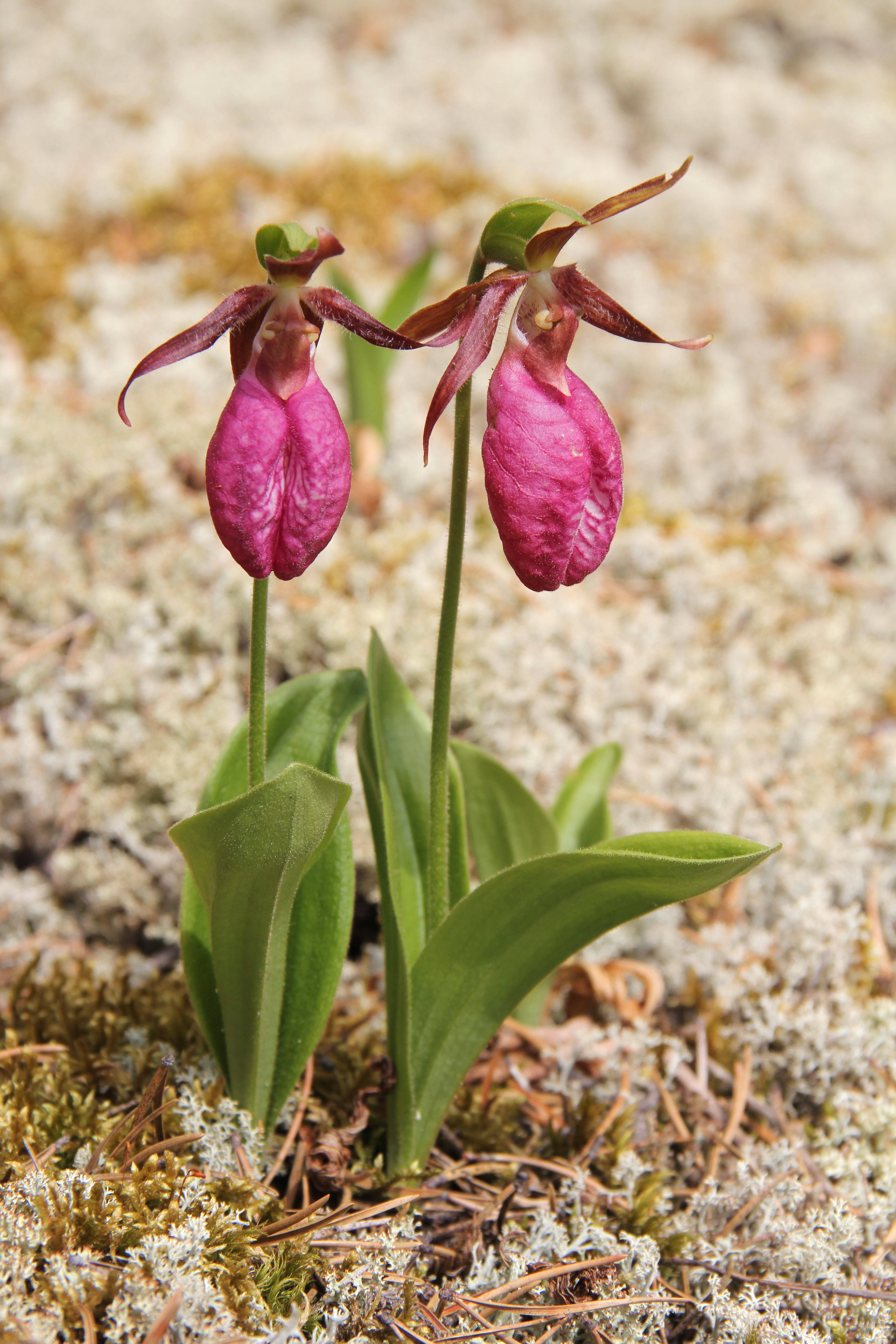 The orchid Cypripedium acaule, commonly known as the "Pink Ladies Slipper". Specimens photographed near La Ronge, Saskatchewan, in northern Canada. Habitat was a rocky area with mostly coniferous trees, with ground cover of mosses and lichens.